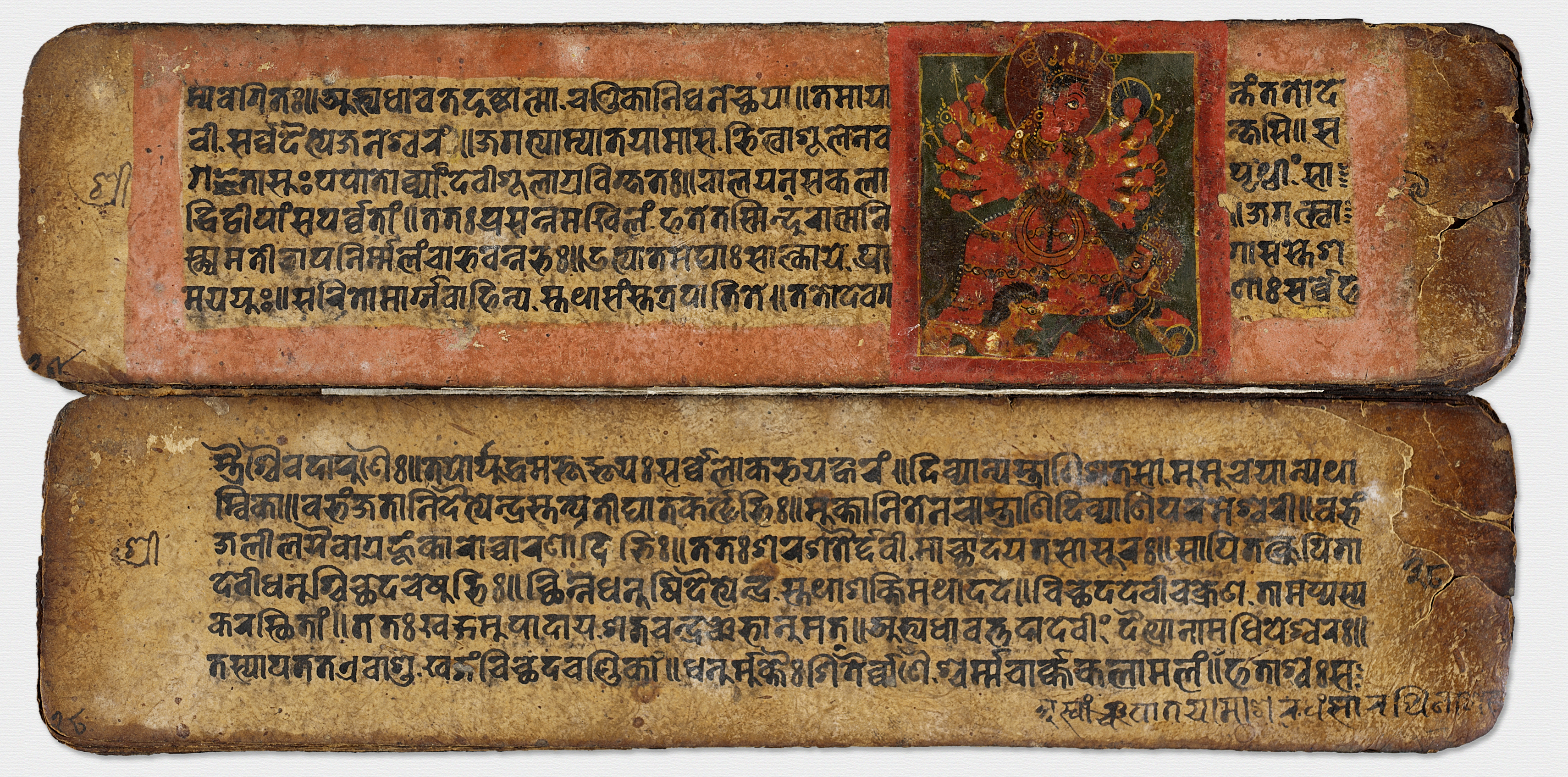 Nepal, 17th century Manuscripts Opaque watercolor and ink on paper; wood cover with colored unguents 2 3/8 x 9 3/8 x 1 1/2 in. (6.03 x 23.81 x 3.8 cm) Gift of Mr. and Mrs. H. Robert Slusser (M.88.134.7) South and Southeast Asian Art